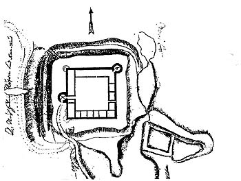 map of Ermes Castle (today Ergeme in Latvia, not far from Fellin) from the Swedish Military Archive in Stockholm.